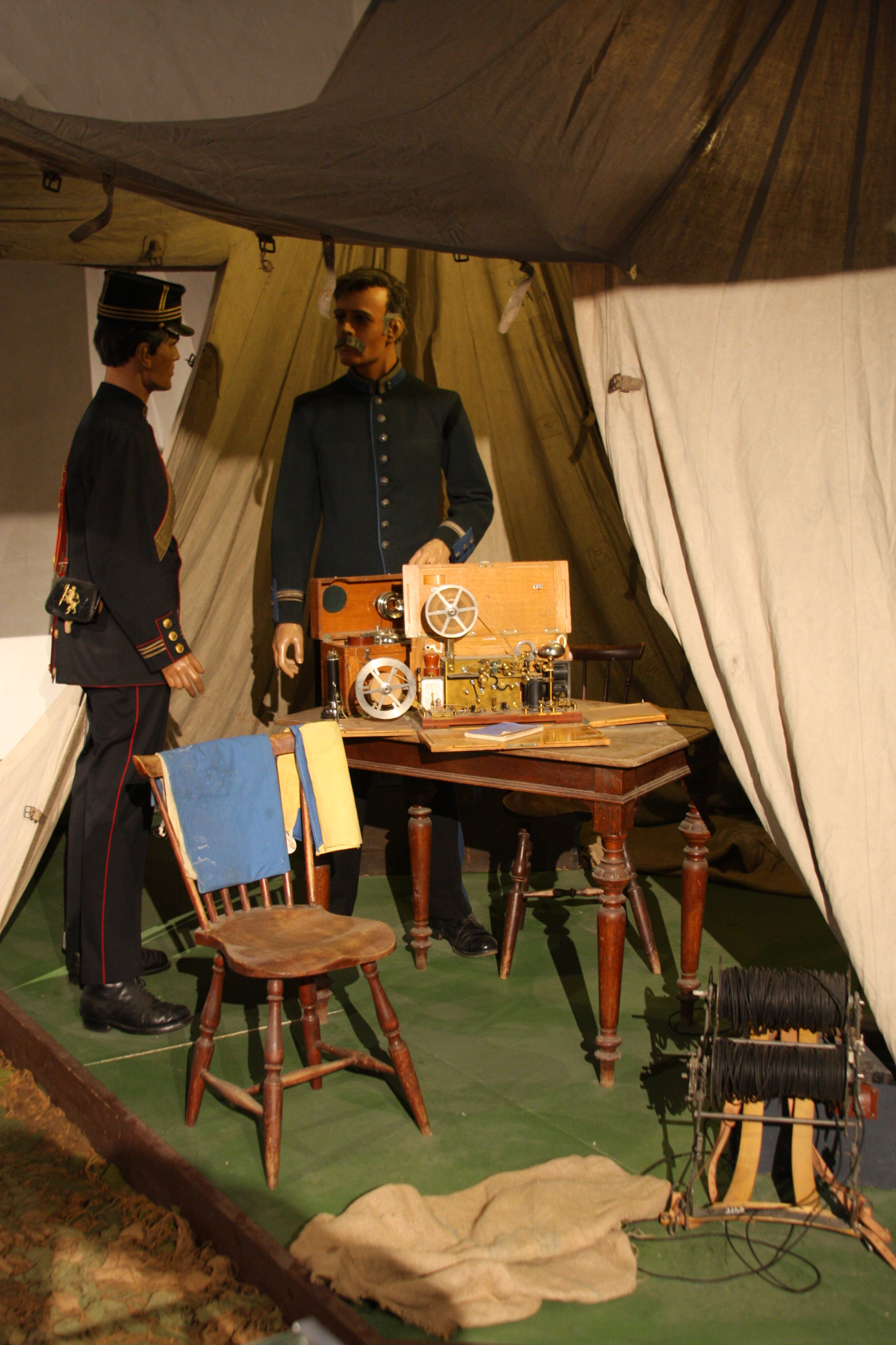 Norwegian Army Telegraph Company (Telegrafkompaniet), a part of the Engineers Division (Ingeniørvesenet), 1888. Oslo Army Museum. Norwegian Army Telegraph Company (Telegrafkompaniet), a part of the Engineers Division (Ingeniørvesenet) 1888 Norwegian Army Telegraph Company (Telegrafkompaniet), a part of the Engineers Division (Ingeniørvesenet) 1888